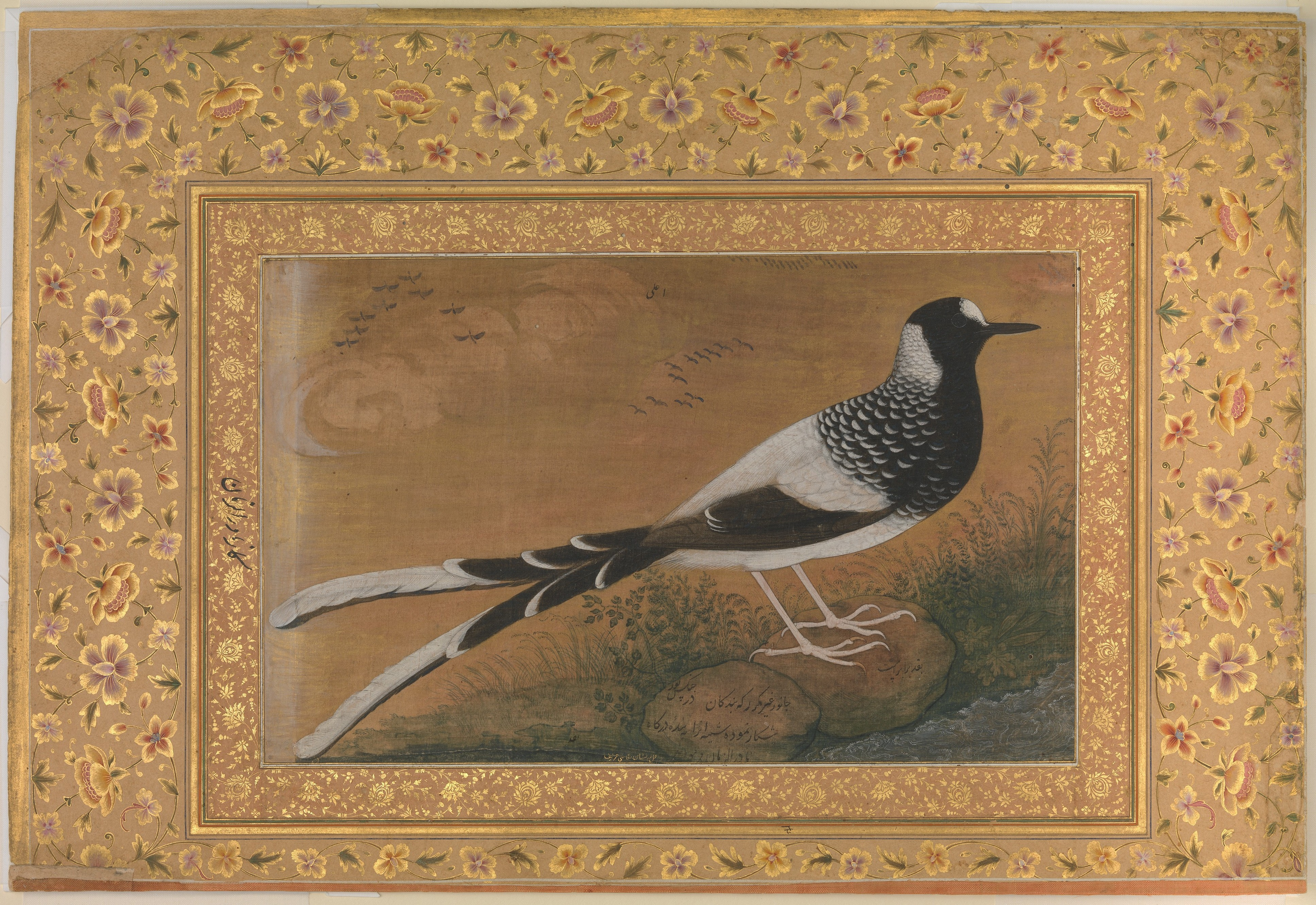 Abu'l Hasan, Spotted Forktail, Folio from the Shah Jahan Album ca. 1610–15 Metropolitan Museum New-York